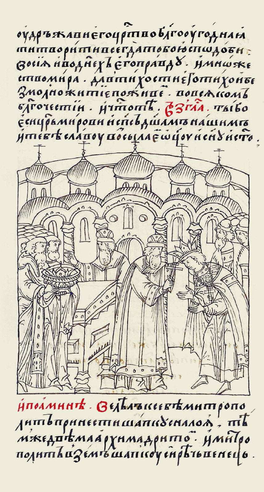 Coronationscene Ivan IV. as Tsar of All Russia